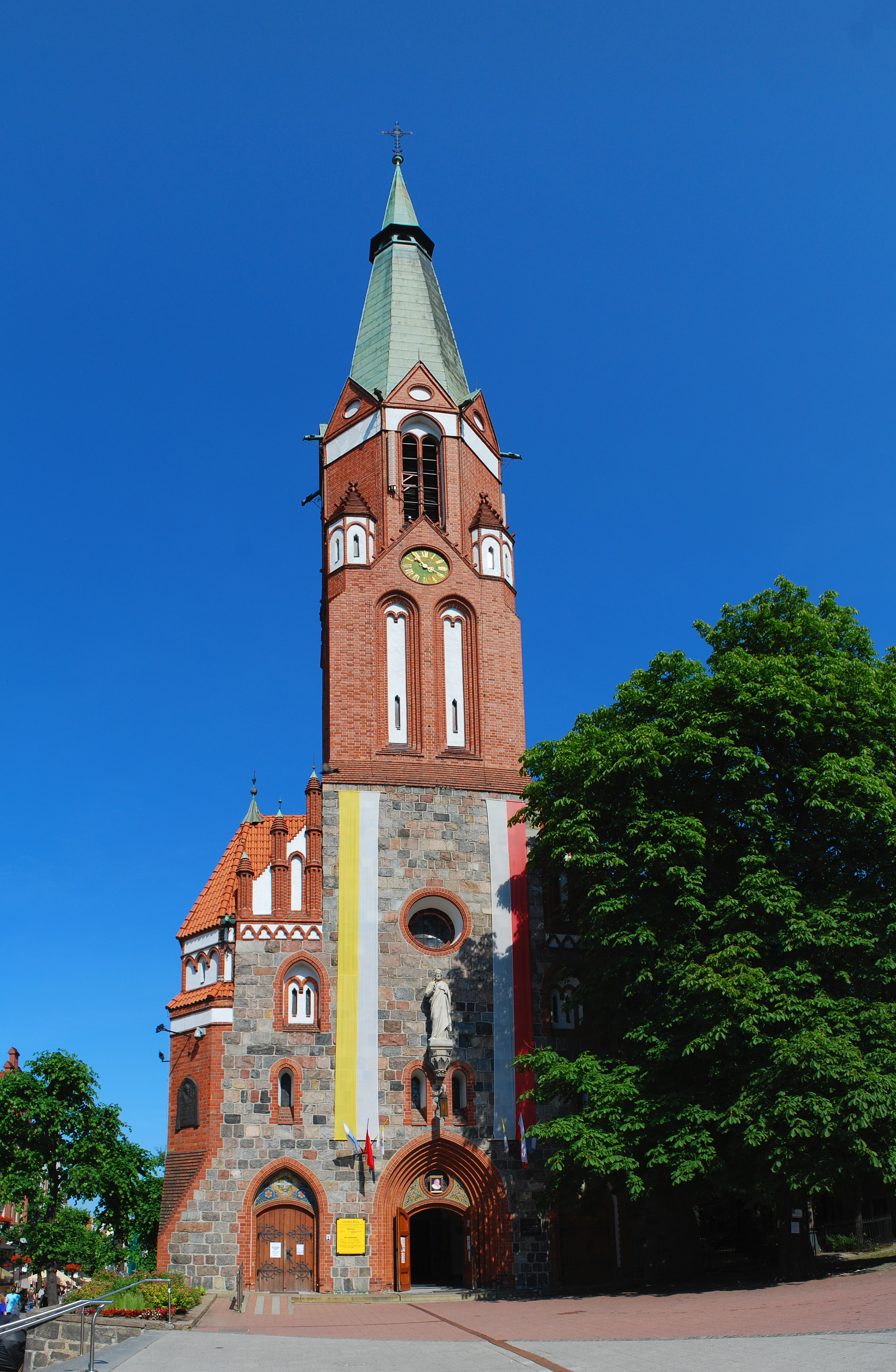 St George church in Sopot, Poland